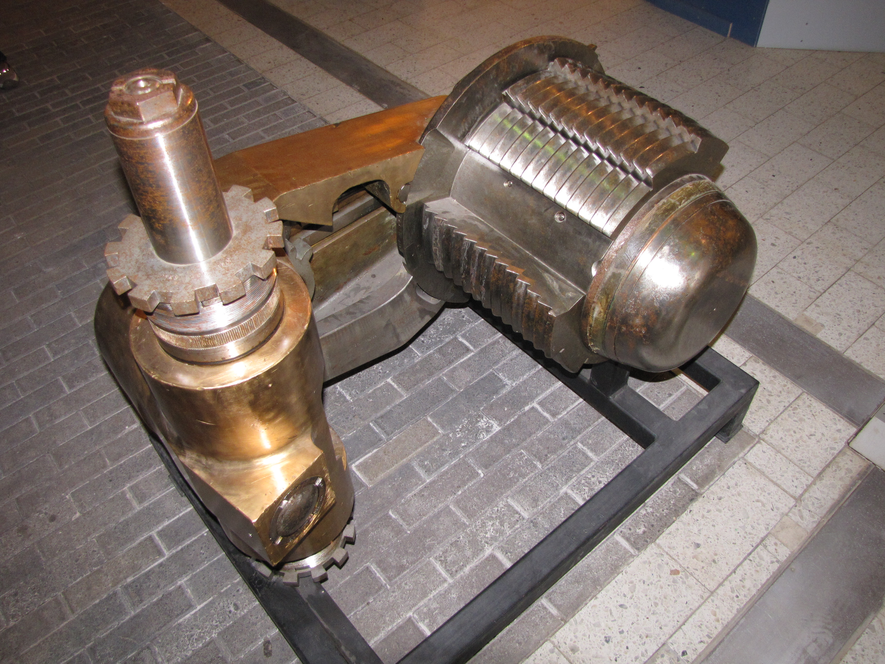 Welin breech block of Obukhovskii 12"/52 Pattern 1907 gun in Manege Military Museum.